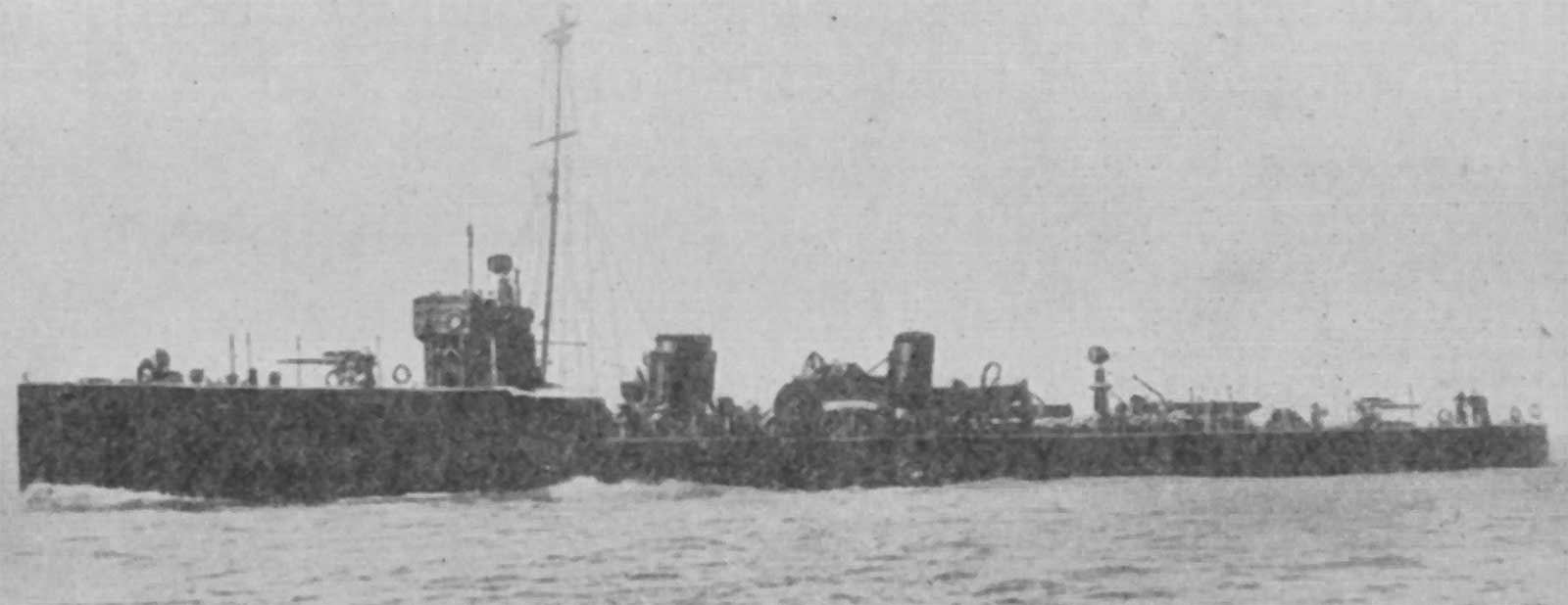 HMS Badger